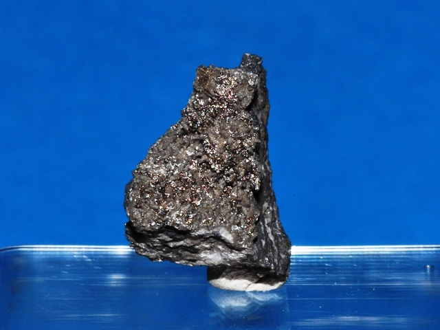 Ranciéite (Size: 2.2 cm x 3.3 cm x 2 cm) Locality: Siresol Mine, Vajo Siresol, Montecchio, Negrar, Verona Province, Veneto, Italy